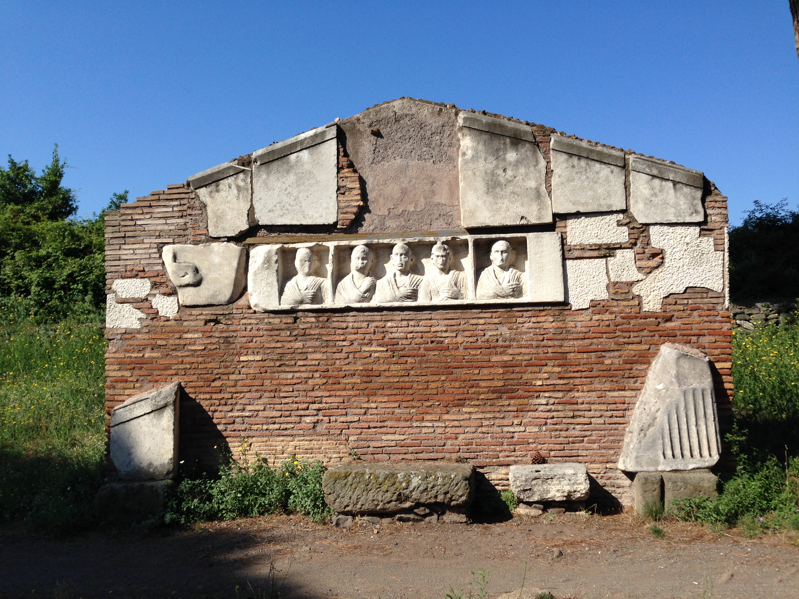 Via Appia, Rome, Italy Married couple, possibly with their daughter and two other males.